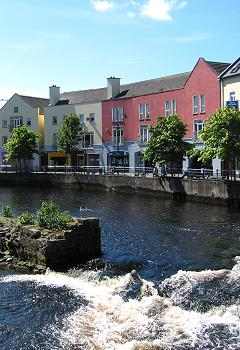 An original photograph taken by me in June 2006